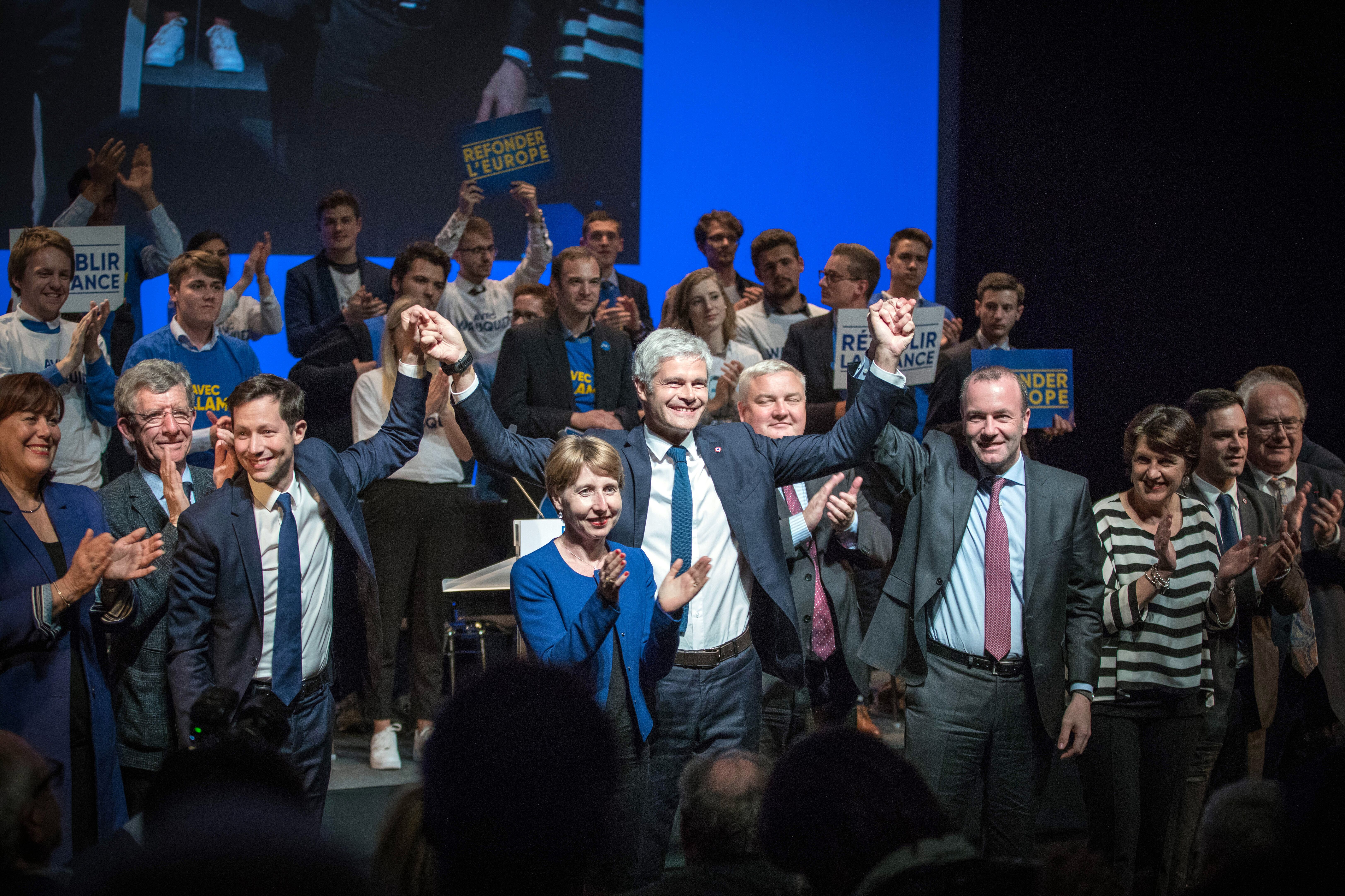 On the road